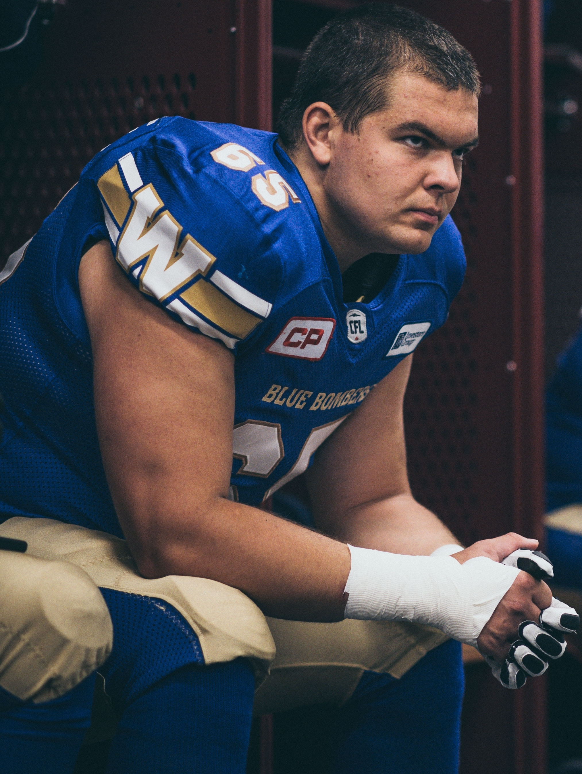 Michael Couture (65) of the Winnipeg Blue Bombers before the pre-season game at TD Place in Ottawa, ON on Monday June 13, 2016. (Photo: Johany Jutras)